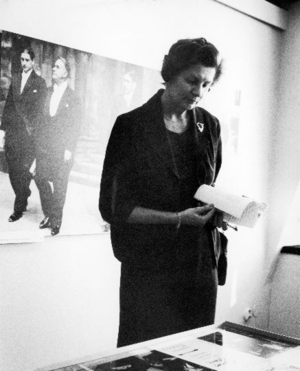 Photograph of the Finnish literature historian Irma Rantavaara (1908–1979).